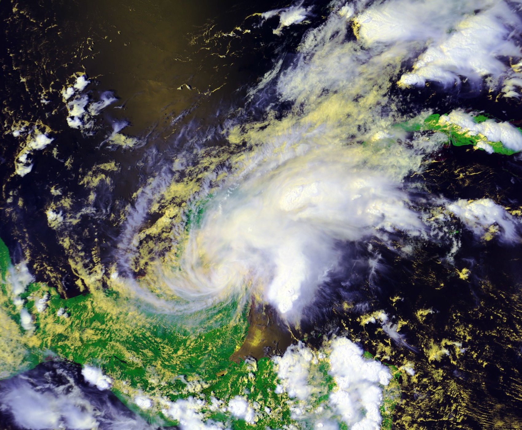 Tropical Storm Chantal at landfall on August 21 at 1924 UTC. This image was produced from data from NOAA-16, provided by NOAA. The storm's maximum sustained winds were 40 mph.